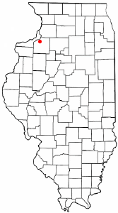 Category:Illinois city locator maps